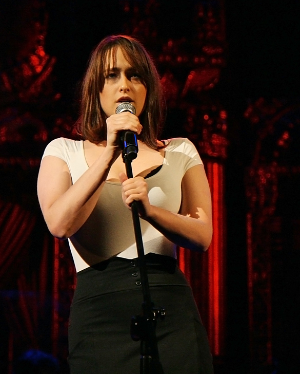 Matylda Damięcka in "Let Us Remember about Agnieszka Osiecka" Concert, Roma Musical Theatre in Warsaw, 15 Sep 2008.